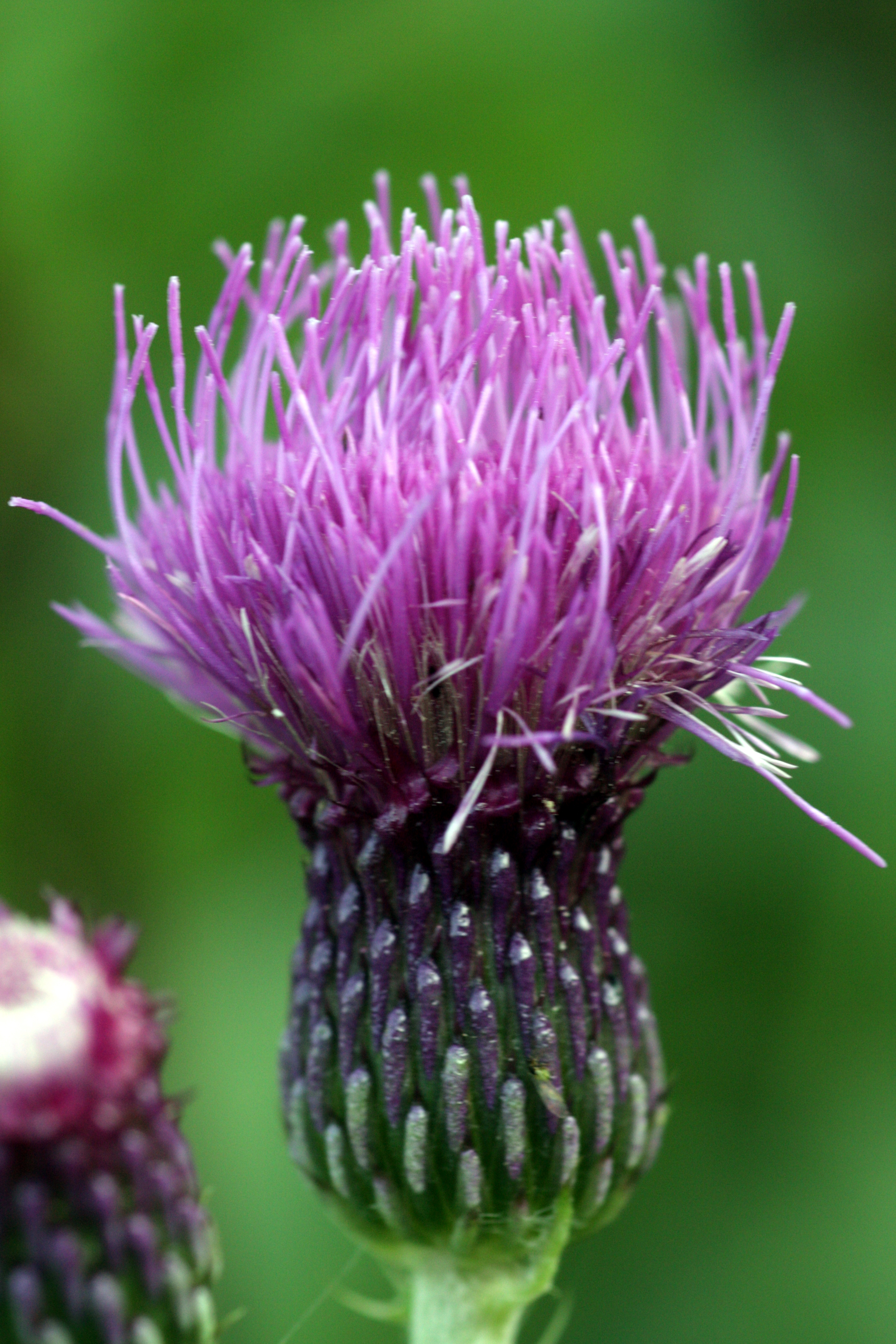 Cirsium japonicum var. maackii